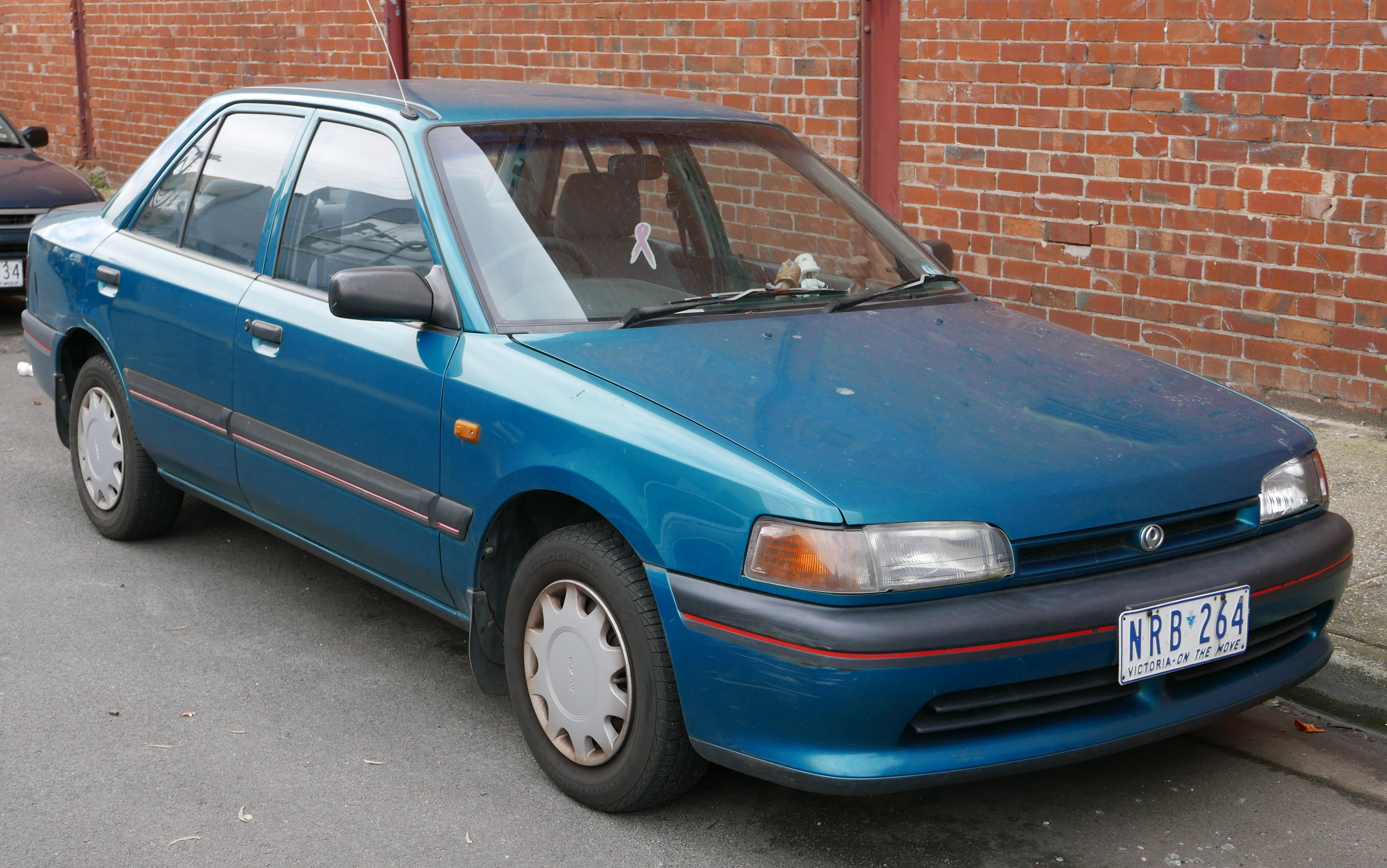 1995 Mazda 323 (BG Series 2) 1.6 sedan. Photographed in Brunswick, Victoria, Australia. Vehicle registration enquiry results Jurisdiction Victoria Registration NRB264 Chassis code JM0BG106200171361 Engine code B6516489 Compliance date 1995-12 Year of manufacture 1996 (not a typo)